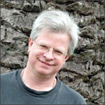 Rick Prelinger, founder of the Prelinger Archives. From the article " Featured Commoners- Rick Prelinger" by Lisa Rein.